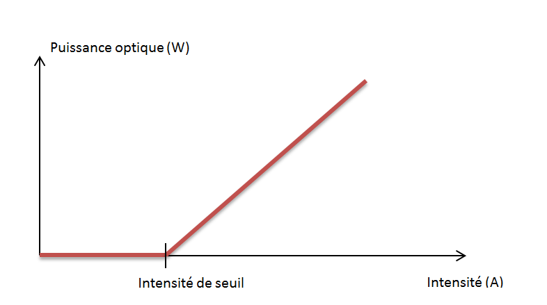 This is the shape of a regular laser diode